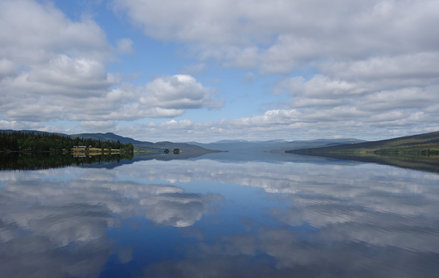 Lake Överst-Juktan viewed from the southern part, with the settlement Åkernäs to the left.